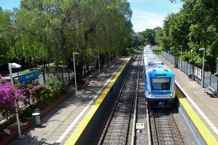 Martinez station on the Mitre Line